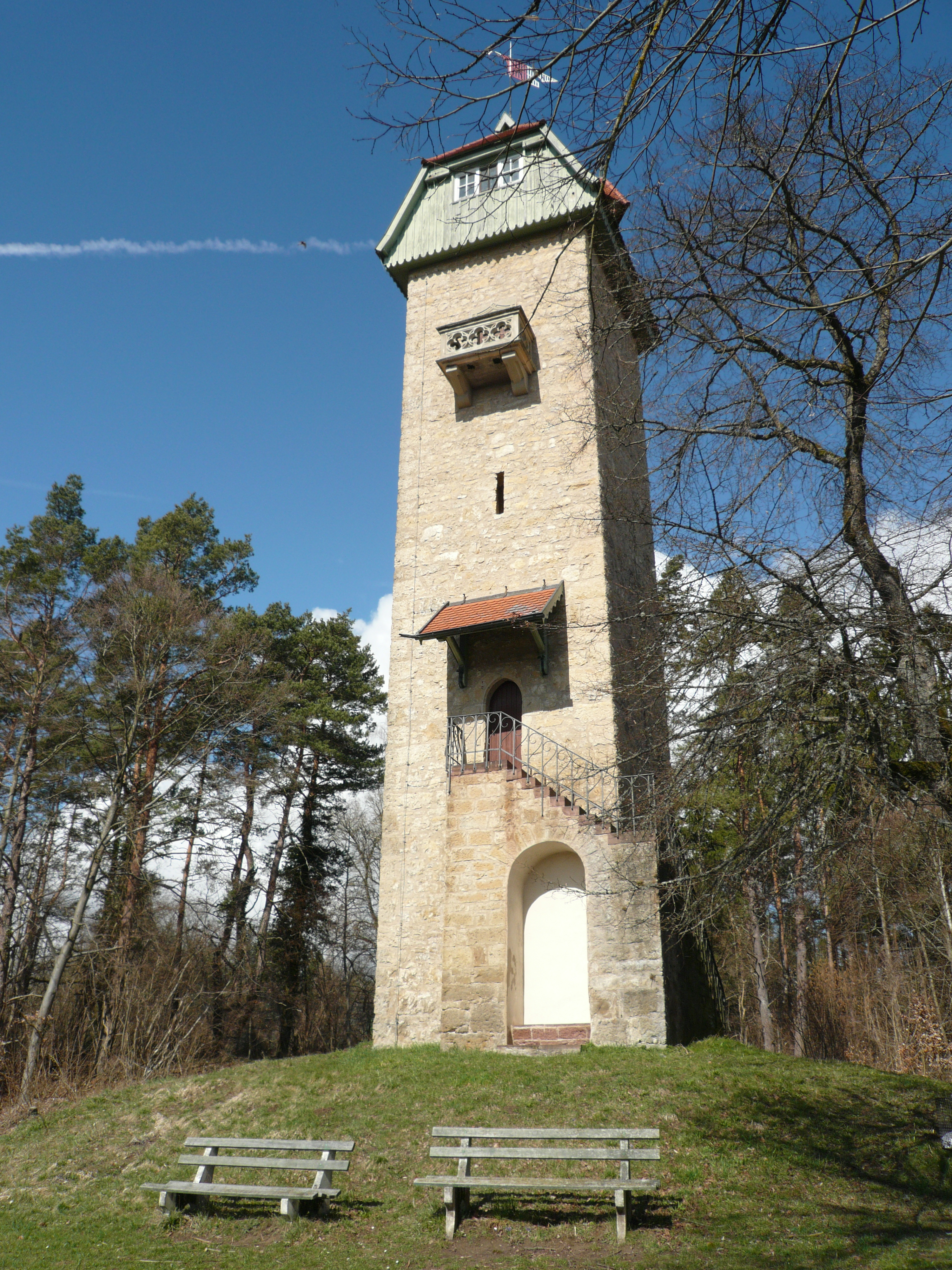 Tower Schuetteturm in Horb